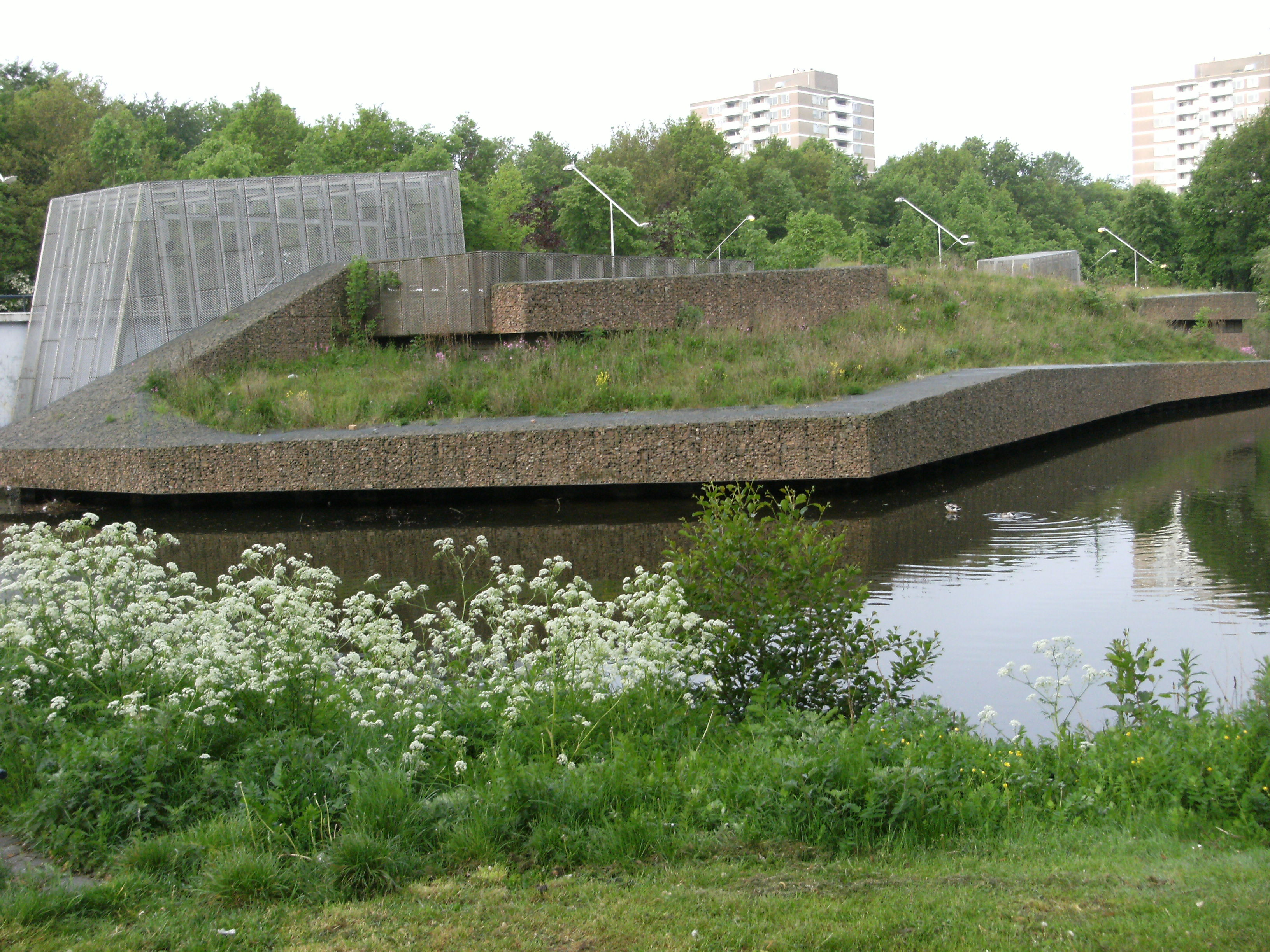 Drainage station in Rembrandtpark, Amsterdam Nieuw-West.